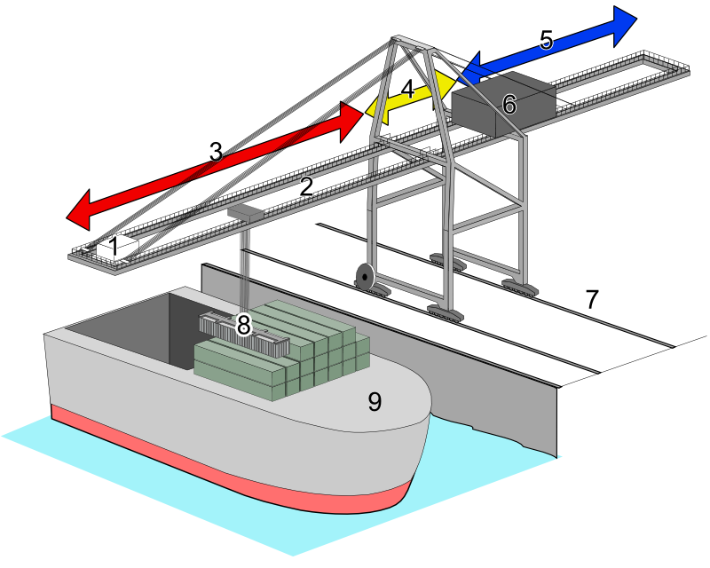 Gantry crane for Container (illustration) 1.オペレータ室 2.ブーム部 3.アウトリーチ 4.スパン 5.バックリーチ 6.機械室 7.レール 8.スプレッダー 9.コンテナ船 1. operator room 2. boom 3. outreach 4. span 5. backreach 6. machine room 7. rail 8. spreader 9. container ship